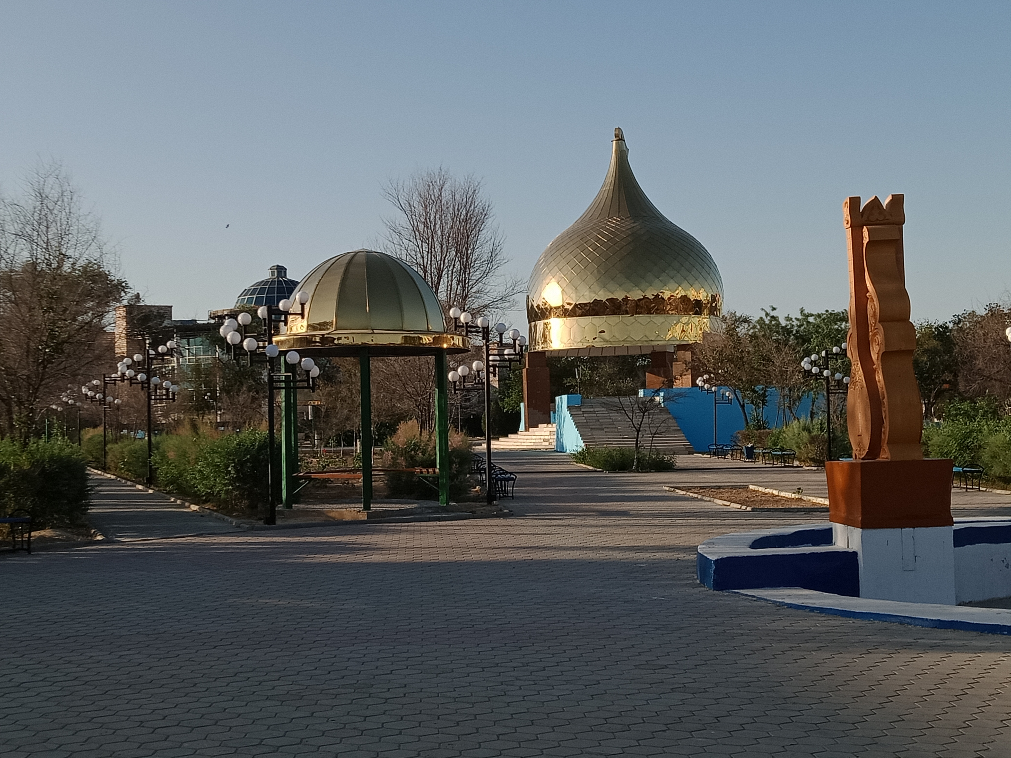 Park "Dulyga" in Zhanaozen